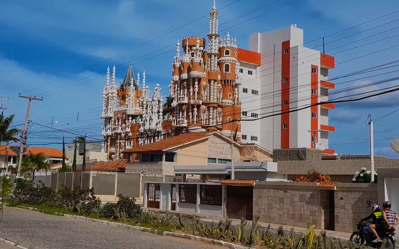 Castelo de Pesqueira/PE